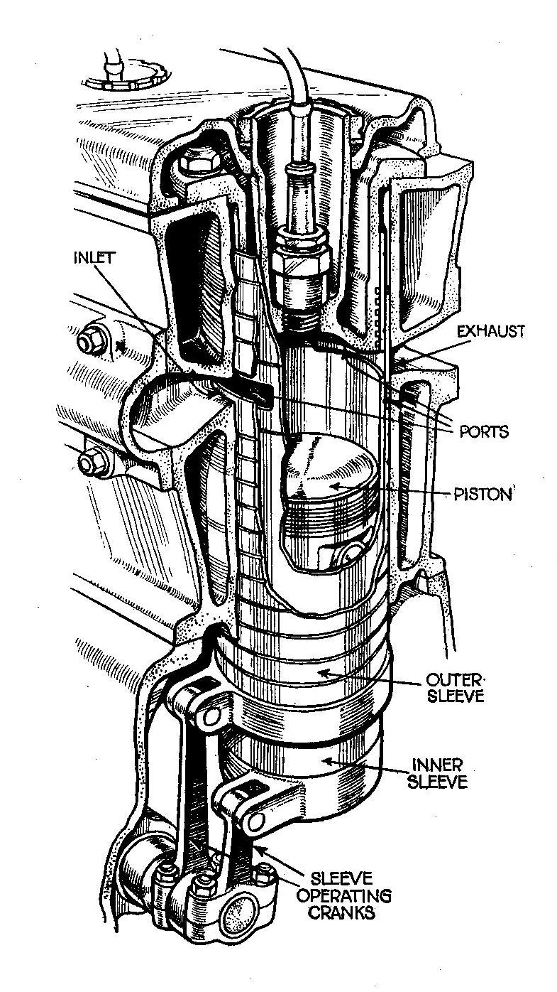 Knight sleeve valve (Autocar Handbook, 13th ed, 1935).jpg